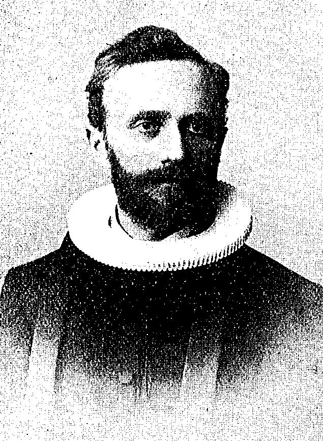 Alfred Janson, editor of the Norwegian children's magazine Magne